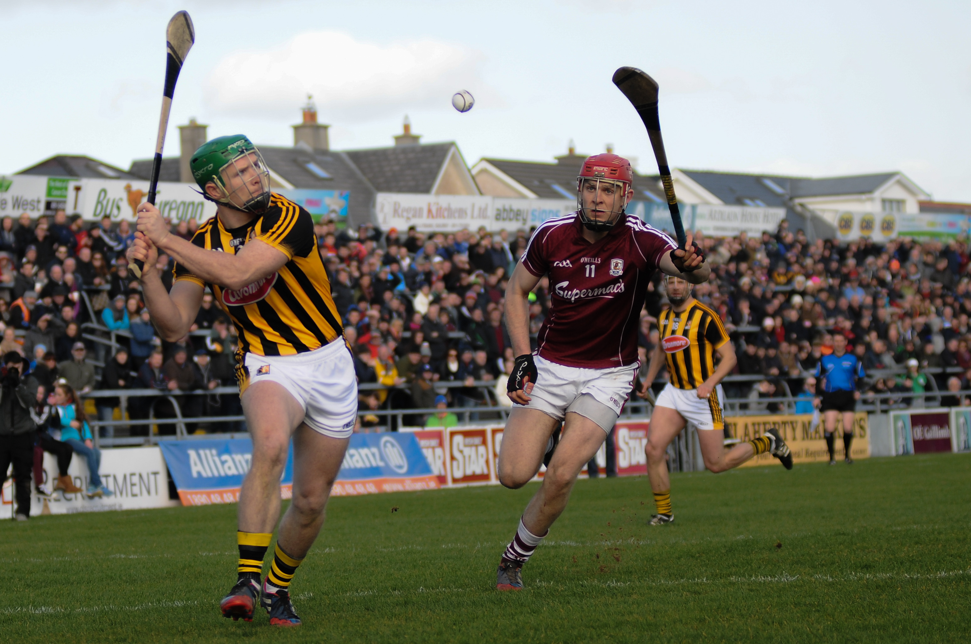 Paul Murphy of Kilkenny and Jonathan Glynn of Galway in action in the 2015 National Hurling League at Pearse Stadium